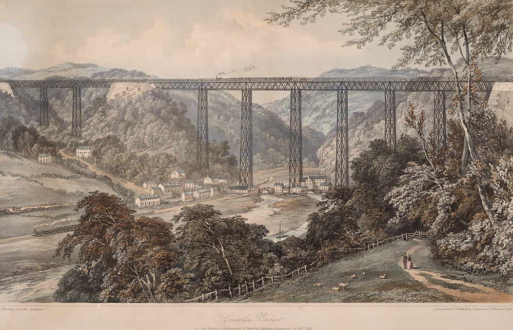 Abstract: A view of Crumlin Vidauct showing a steam train on viaduct, another below, as well as the river and houses.